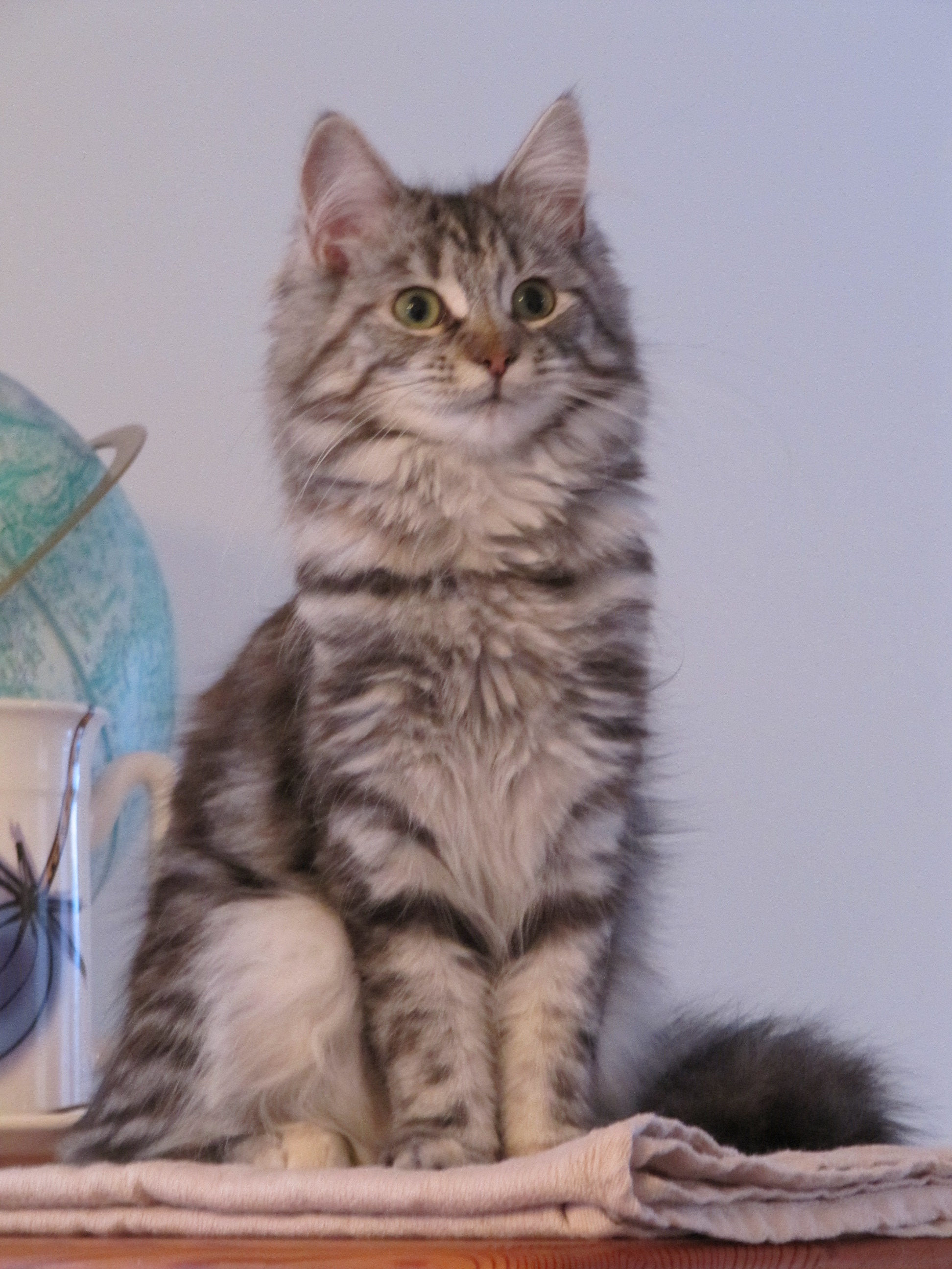 A 6 months old kitten that is a cross between a Maine Coon and a Norwegian Forest Cat.